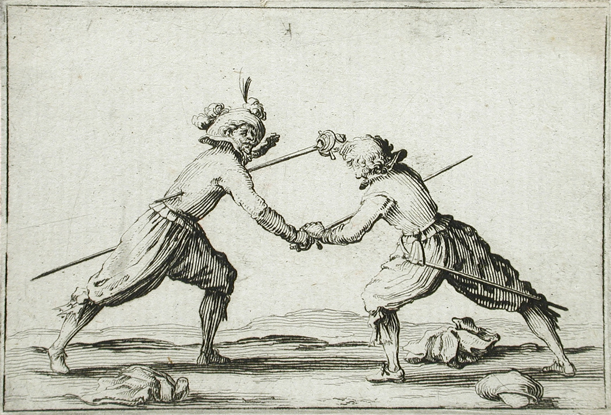 France, 1617 Alternate Title: Le Duel à l'épée Series: Les Caprices (Florentine edition) Prints; etchings Etching Gift of Warren C. Shearman (M.61.2.7) Prints and Drawings